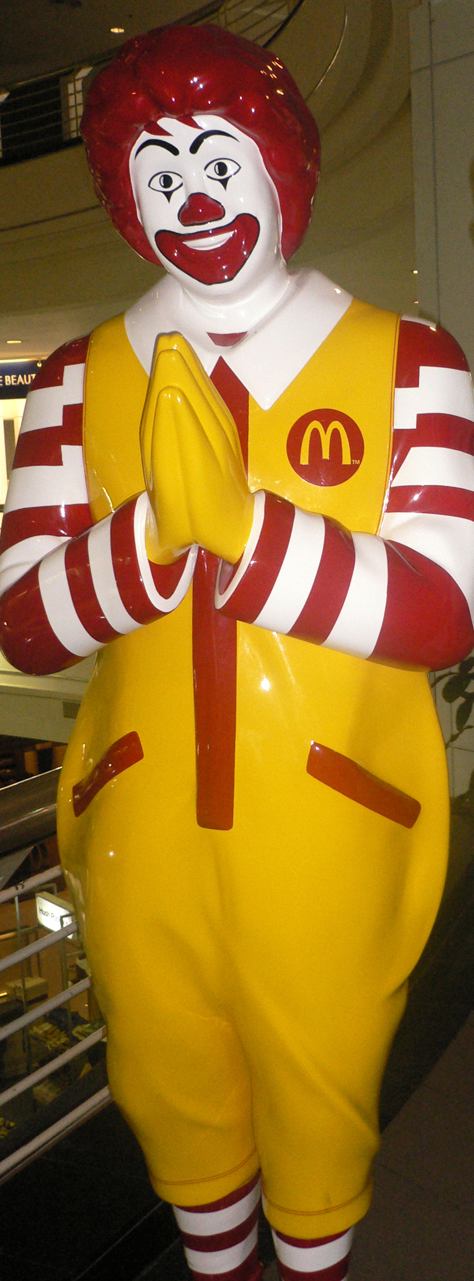 Ronald McDonald in Thailand